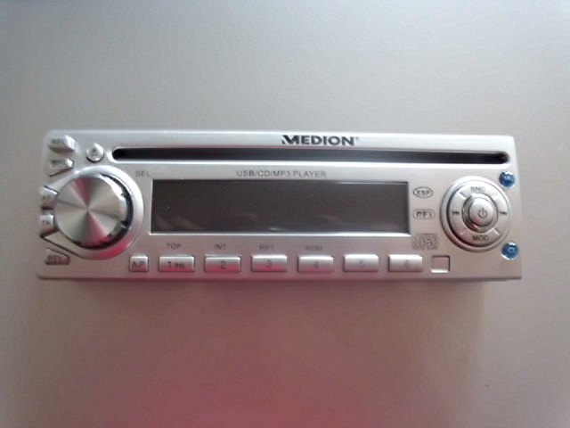 Medion radio